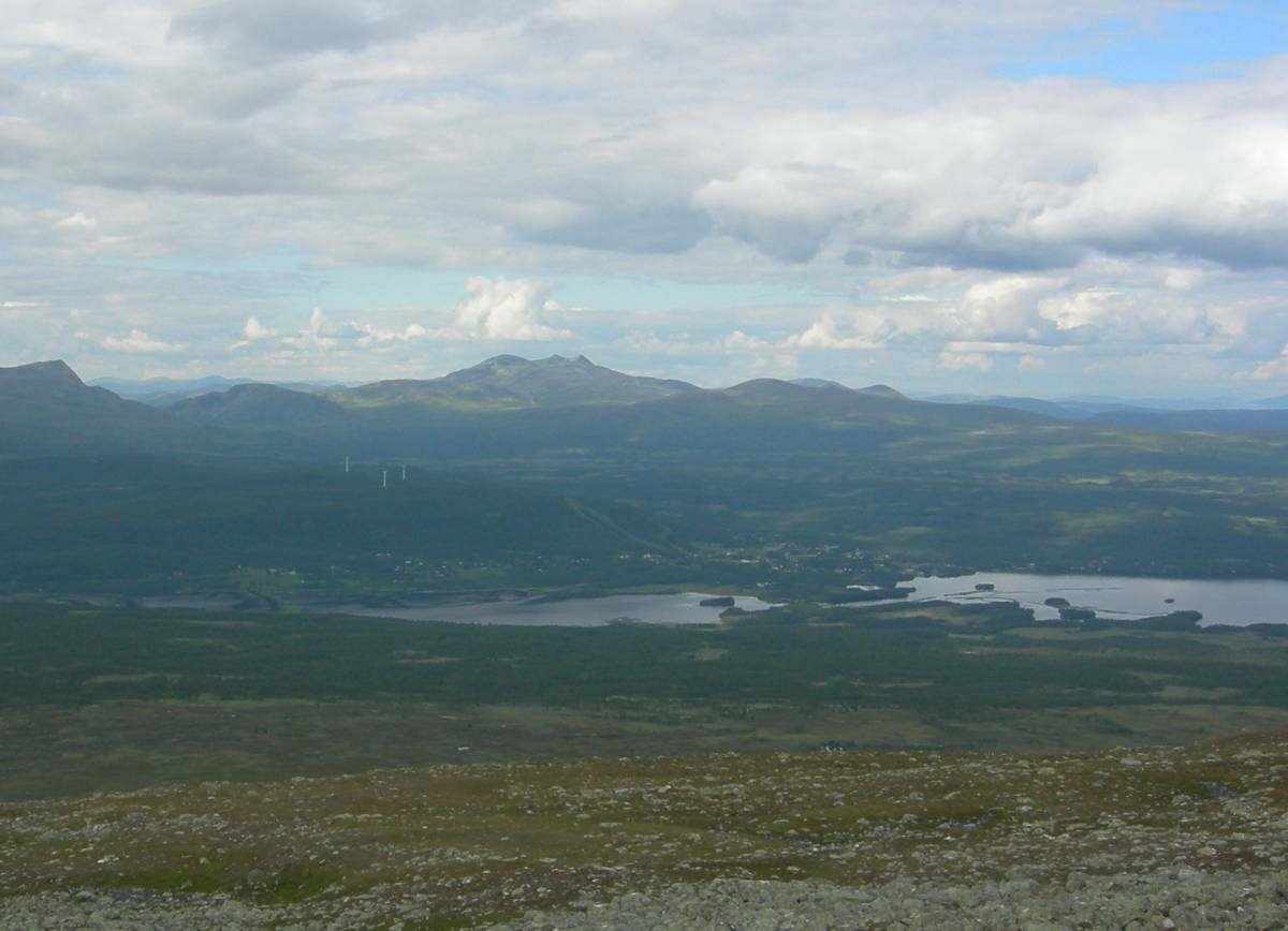 View on Klimpfjäll with Fjällfjället Mts. over Lake Kultsjön, from Autjoklimpen (Norra Borgafjällen Mts.), Västerbotten/Lappland, Sweden